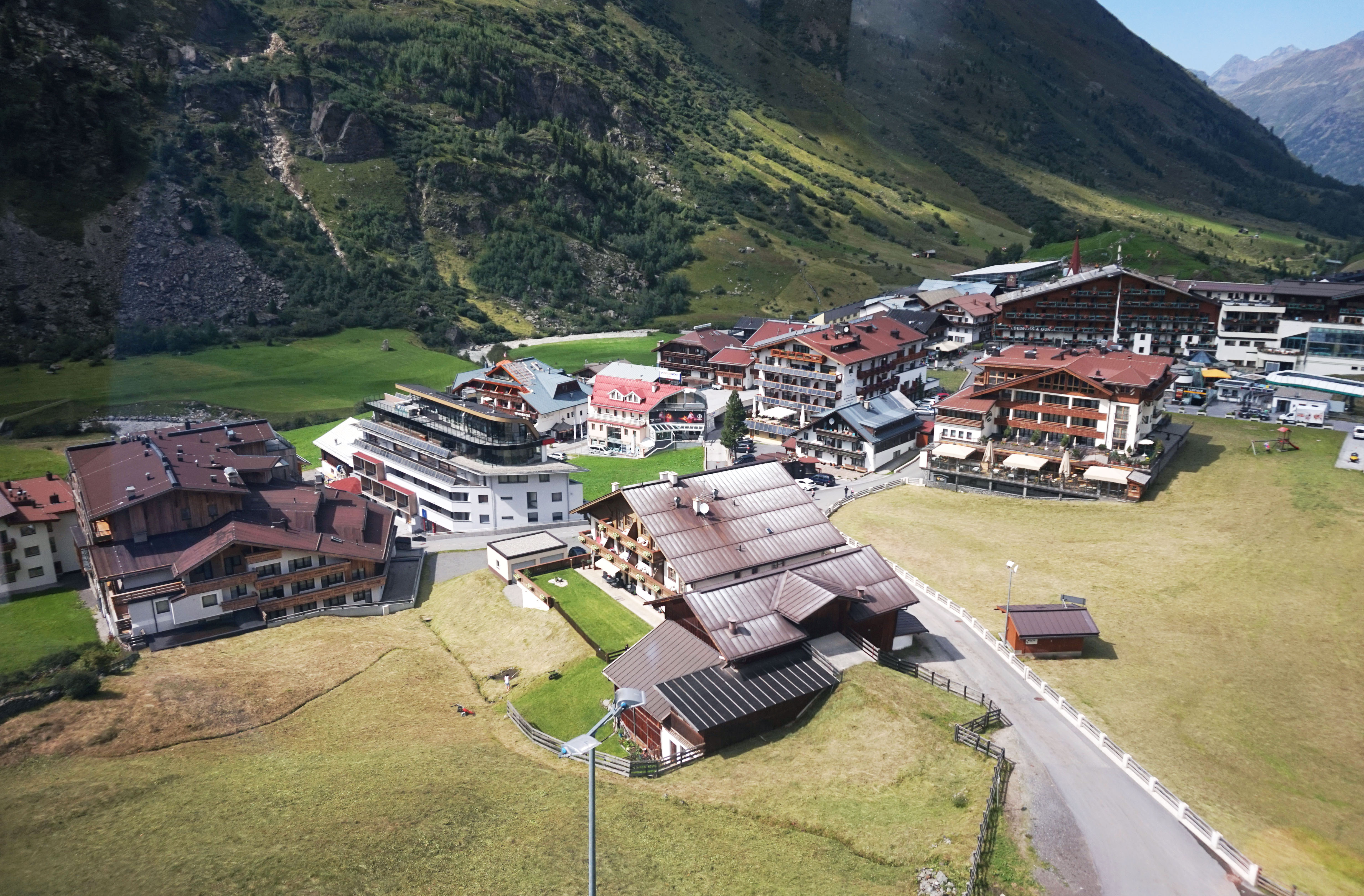 Obergurgl, Austria.This photograph was taken with a Sony ILCE-5000